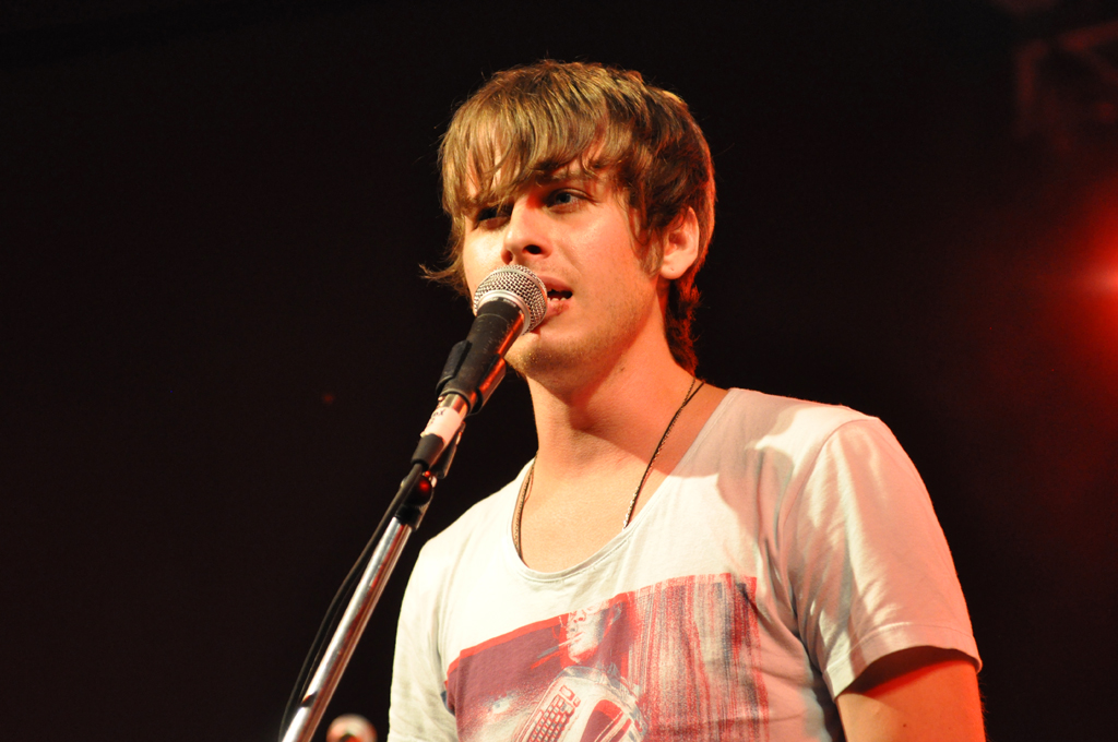 Mark Foster of Foster the People at South by Southwest 2011